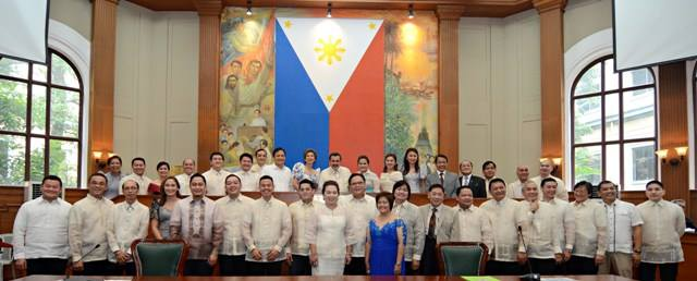 Manila Mayor Joseph Ejercito Estrada (middle, back row) poses with members of Manila's 10th City Council after he delivered the formal address at the latter's Inaugural Session. In his remarks, Mayor Estrada called on all the members to unite for the greater good, stressing that elections lasted only a day while true public service is a lifetime calling.